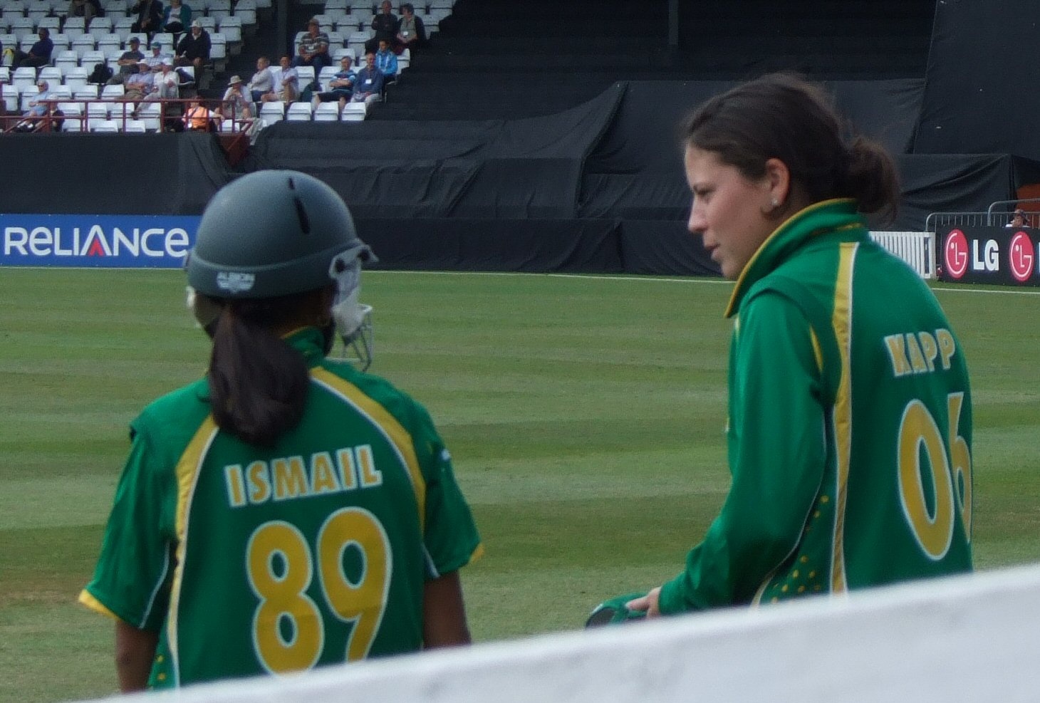 Shabnim Ismail and Marizanne Kapp in discussion during a Twenty20 International cricket match between South Africa and West Indies at the County Ground, Taunton.